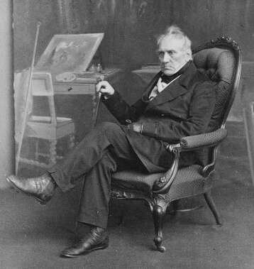 Edward Hodges Baily